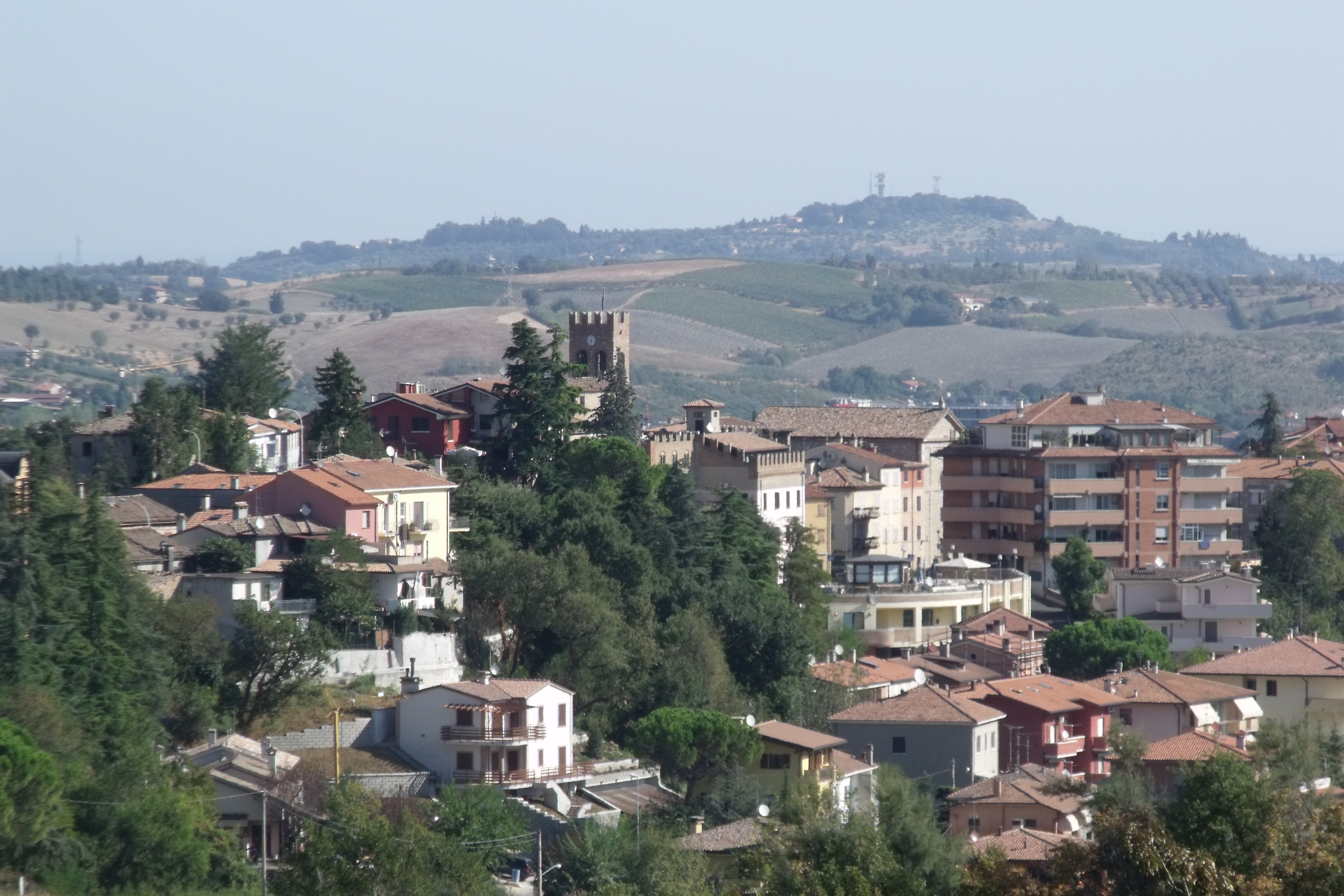 Panorama of Serravalle in San Marino